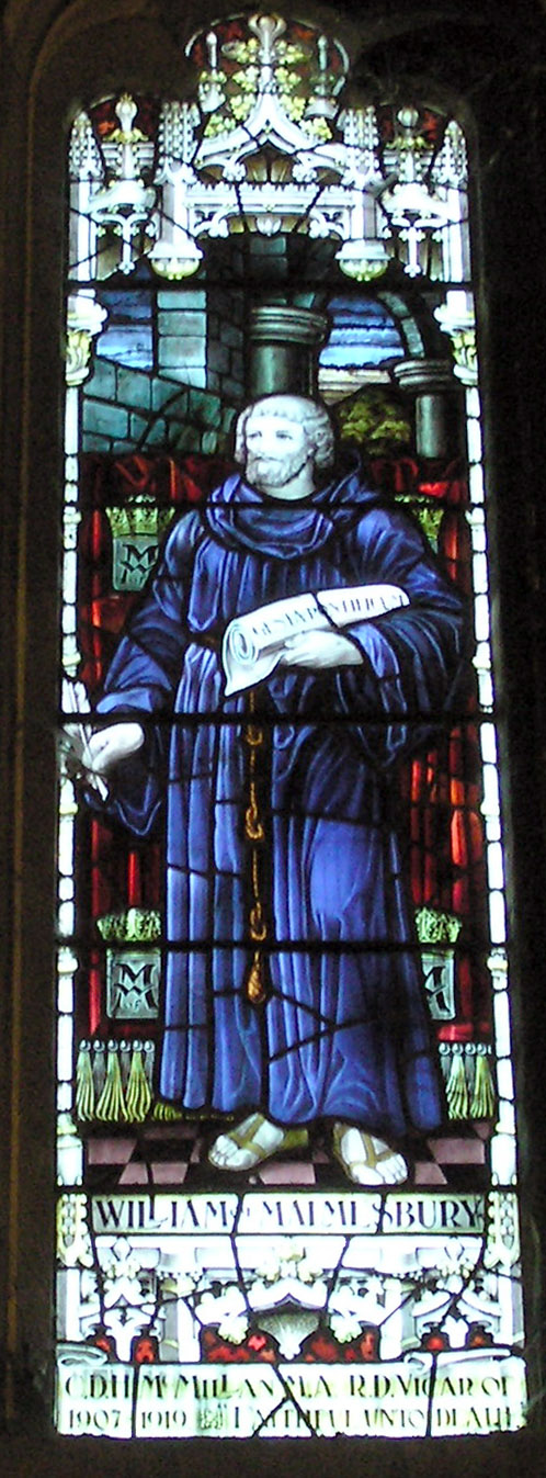 Stained glass window showing William, installed in Malmesbury Abbey in 1928 in memory of Rev. Canon C. D. H. McMillan, Vicar of Malmesbury from 1907 to 1919. Taken by Adrian Pingstone in February 2005 and released to the public domain.